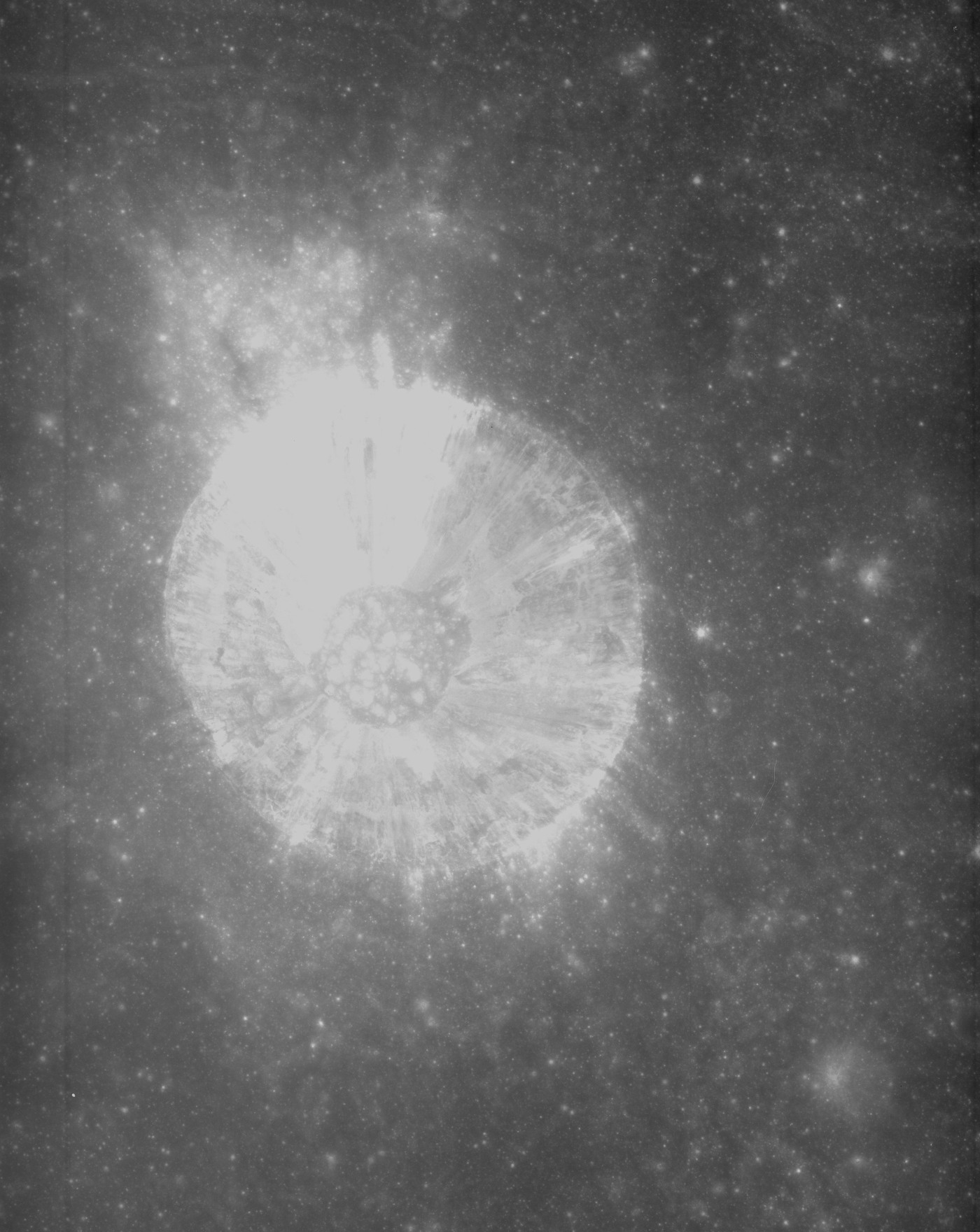 Oblique view of Cauchy, Mare Tranquillitatis, on the moon. Approximate north at top.